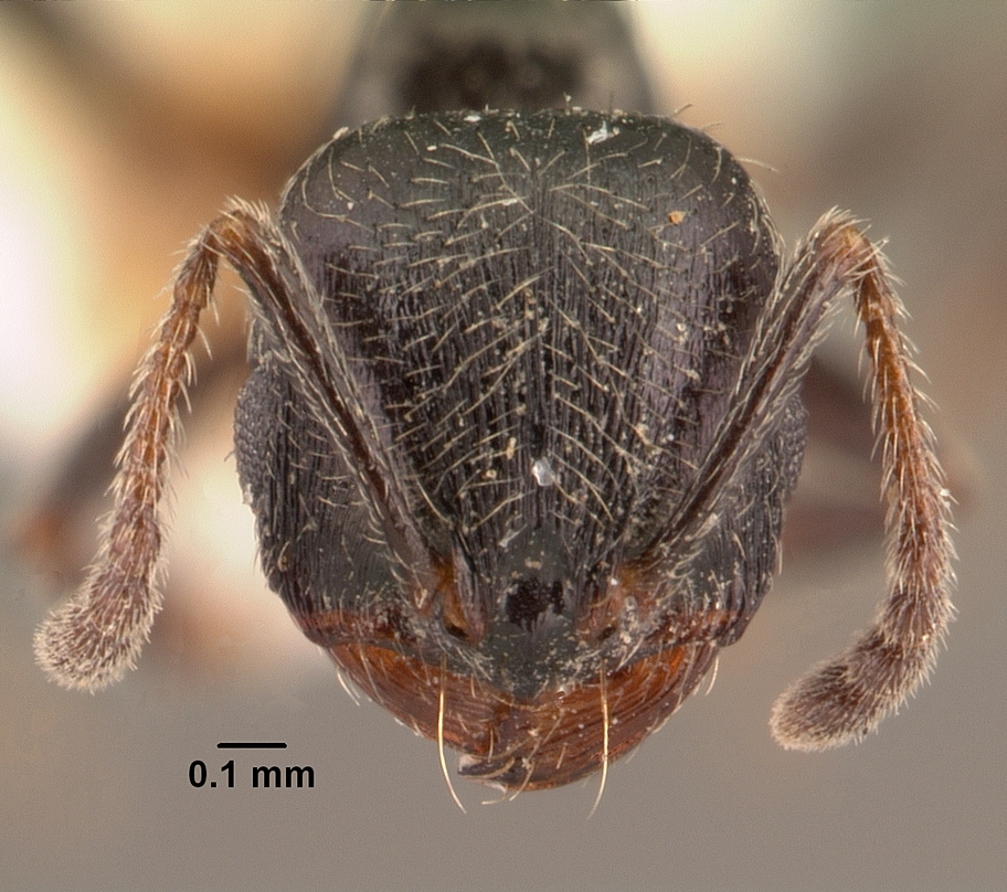 Head view of ant Goniomma collingwoodi specimen casent0101190.